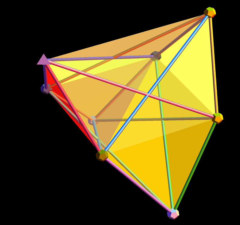 Notional amplituhedron visualization. Calculate the scattering amplitude by calculating the volume of the projected hull of selected edges in the n-Simplex Amplituhedron (based on a theory by Nima Arkani-Hamed, with some Mathematica code from J. Bourjaily for the positroid diagram) This diagram is obtained using the author's Mathematica .CDF or .NB code with the following amplituhedron0.m as input to the from ToE_Demonstration.cdf found on new := { artPrint=True; scale=0.1; cylR=0.018; range=2.; pt={-0.3, 0.0, 0.6}; favorite=1; showAxes=False; showEdges=True; showPolySurfaces=True; eColorPos=False; dimTrim=5; ds=6; pListName=”First8″; dsName=”nSimplex″; p3D=” 3D”; edgeVals= Sqrt[11/2], 8}, {Sqrt[9/2 - Sqrt[2 , 4}, {Sqrt[9/2 + Sqrt[2 , 4 ; };new